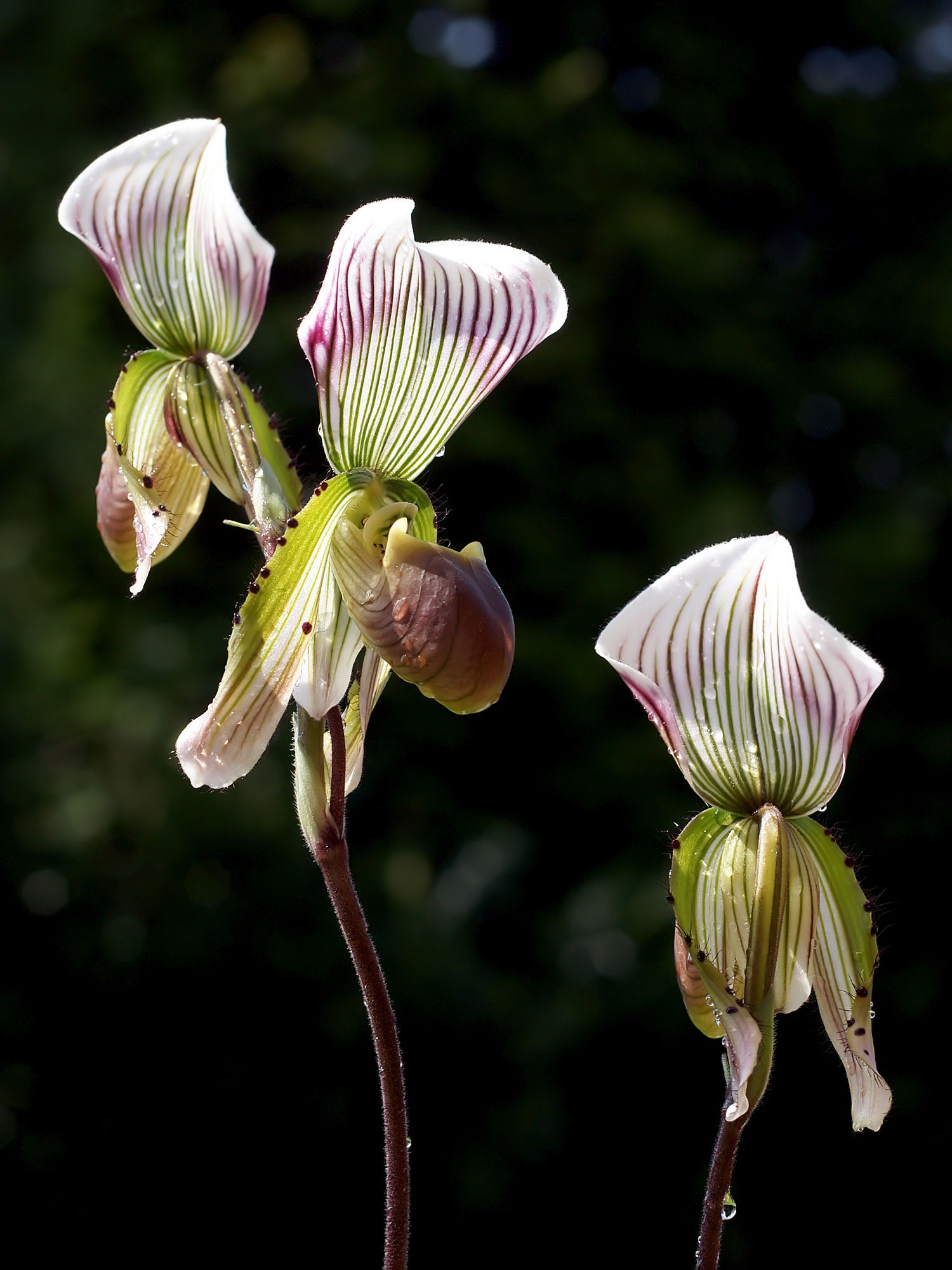 Paphiopedilum callosum